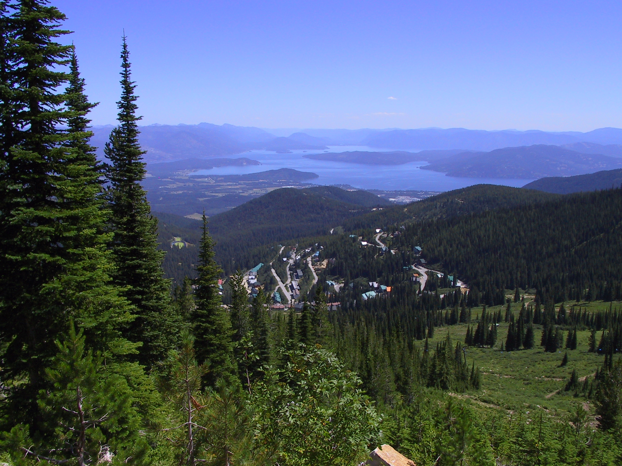 Schweitzer Overlook. Overlooking Sandpoint, ID and Lake Pend Oreille, Sandpoint.